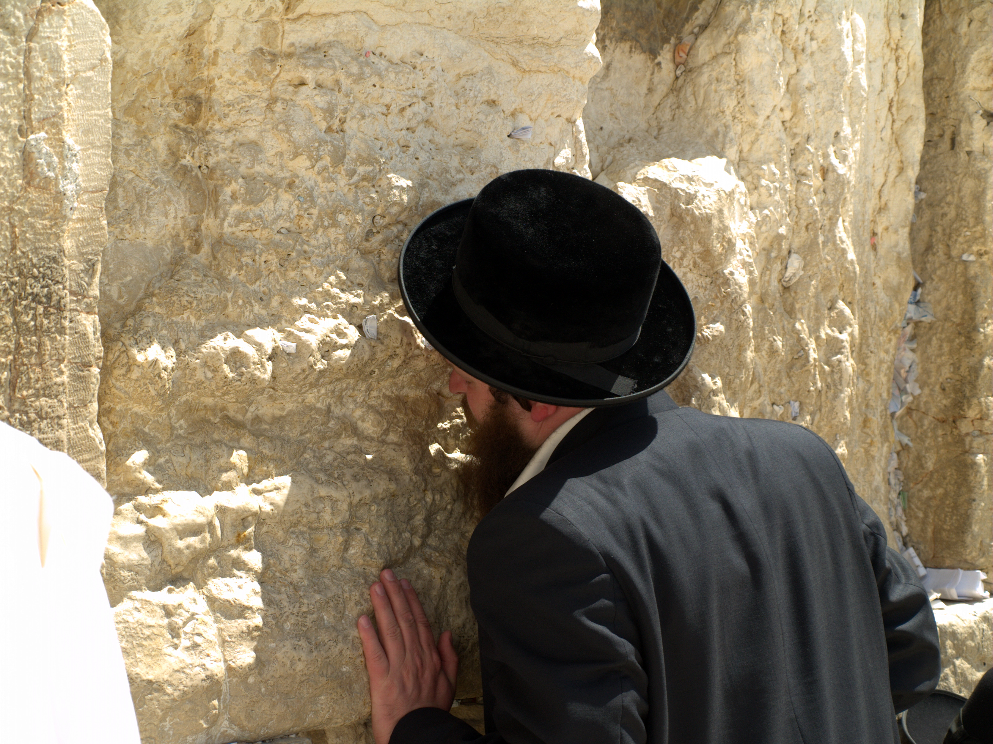 A man prays at the Western Wall.